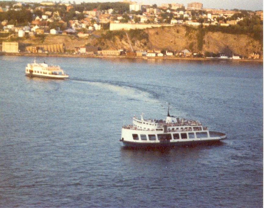 Ferries between the cities of Québec City and Lévis on the St. Lawrence river (1984). In the background: a part of Lévis.